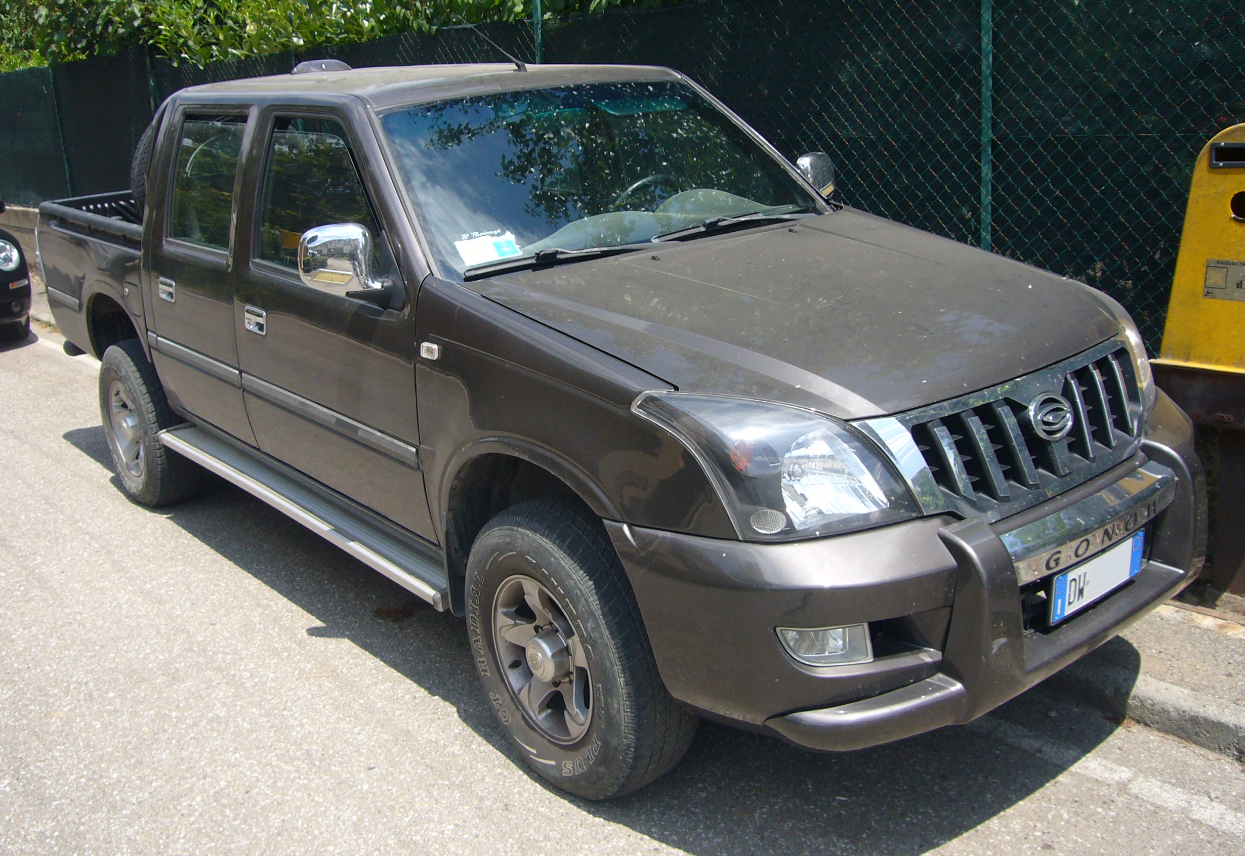 Gonow GA200 (Troy) in Tuscany, Italy